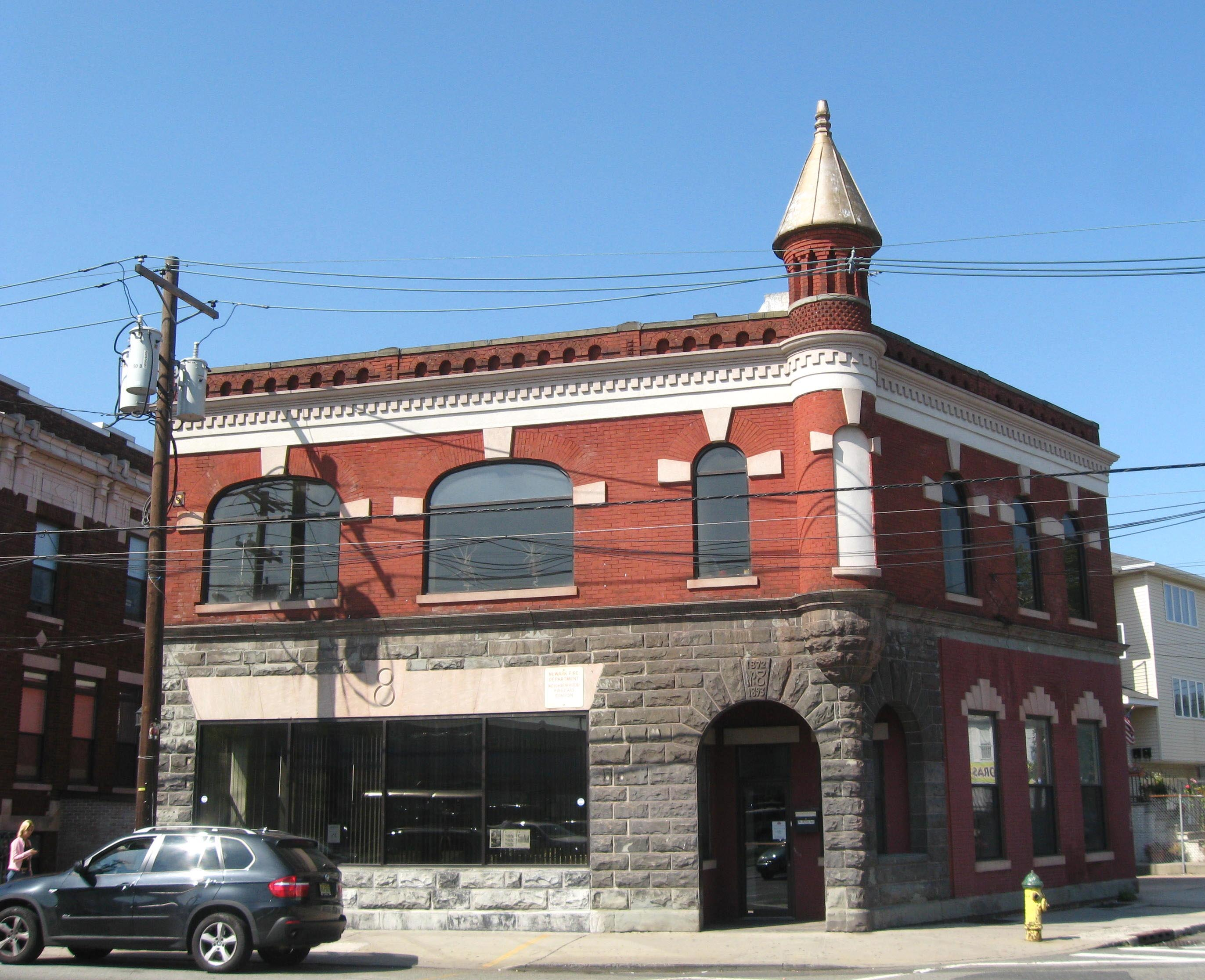 Looking north across Ferry Street in Ironbound, at former Firehouse 8 at Filmore Street on a sunny midday